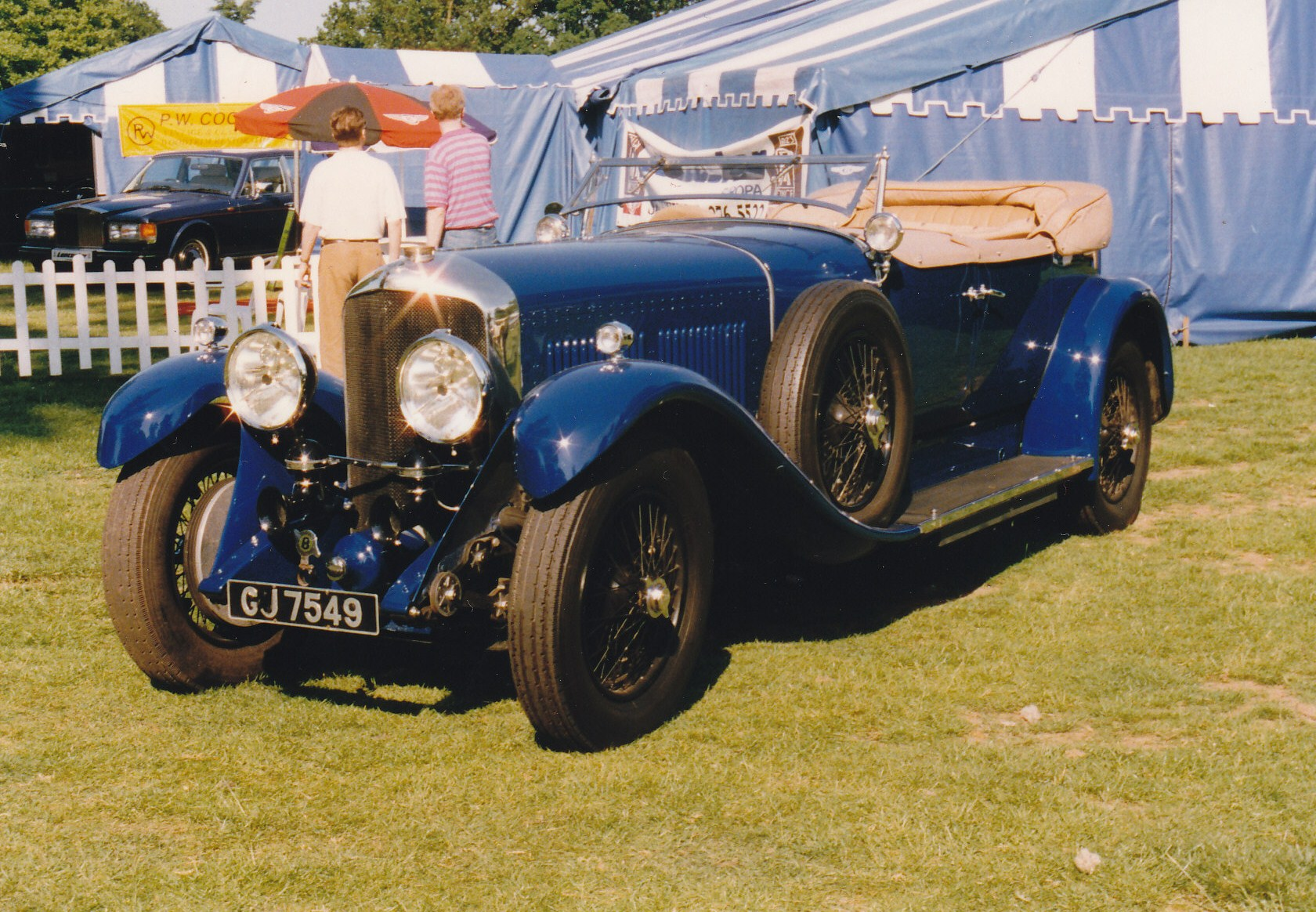 Bentley Speed Six LR2793 with original Hooper body Delivered July 1930 with Hooper tourer body (illustrated) Speed Model Chassis LR2793 9' 9½" wheelbase Engine LR2797 high compression engine, twin SU carburettors Reg GJ 7549 Source of data—Vintage Bentleys